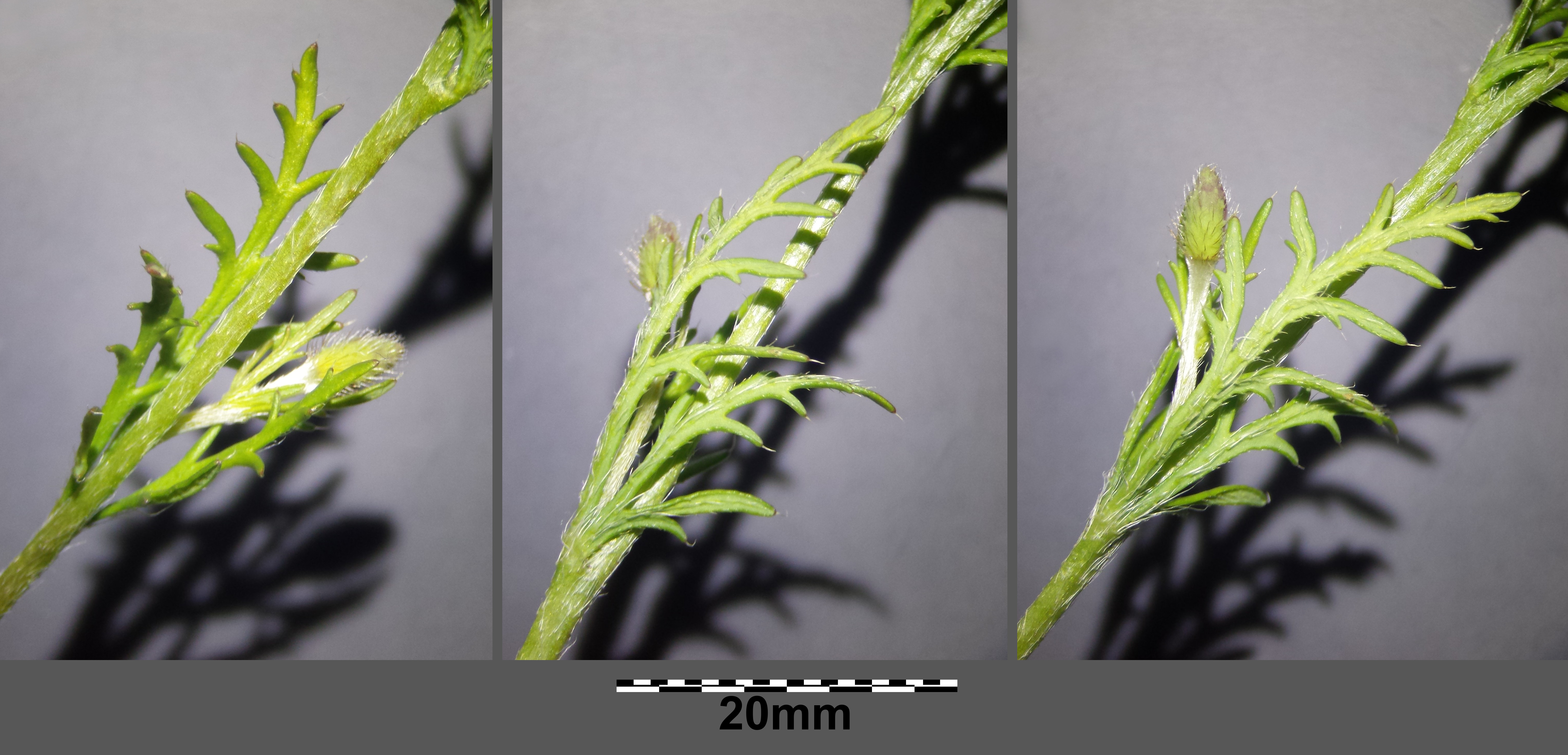 Stem with leaf Taxonym: Papaver argemone ss Fischer et al. EfÖLS 2008 ISBN 978-3-85474-187-9 Location: Floridsdorf rail station, Vienna-Floridsdorf - ca. 160 m a.s.l. Habitat: ballast